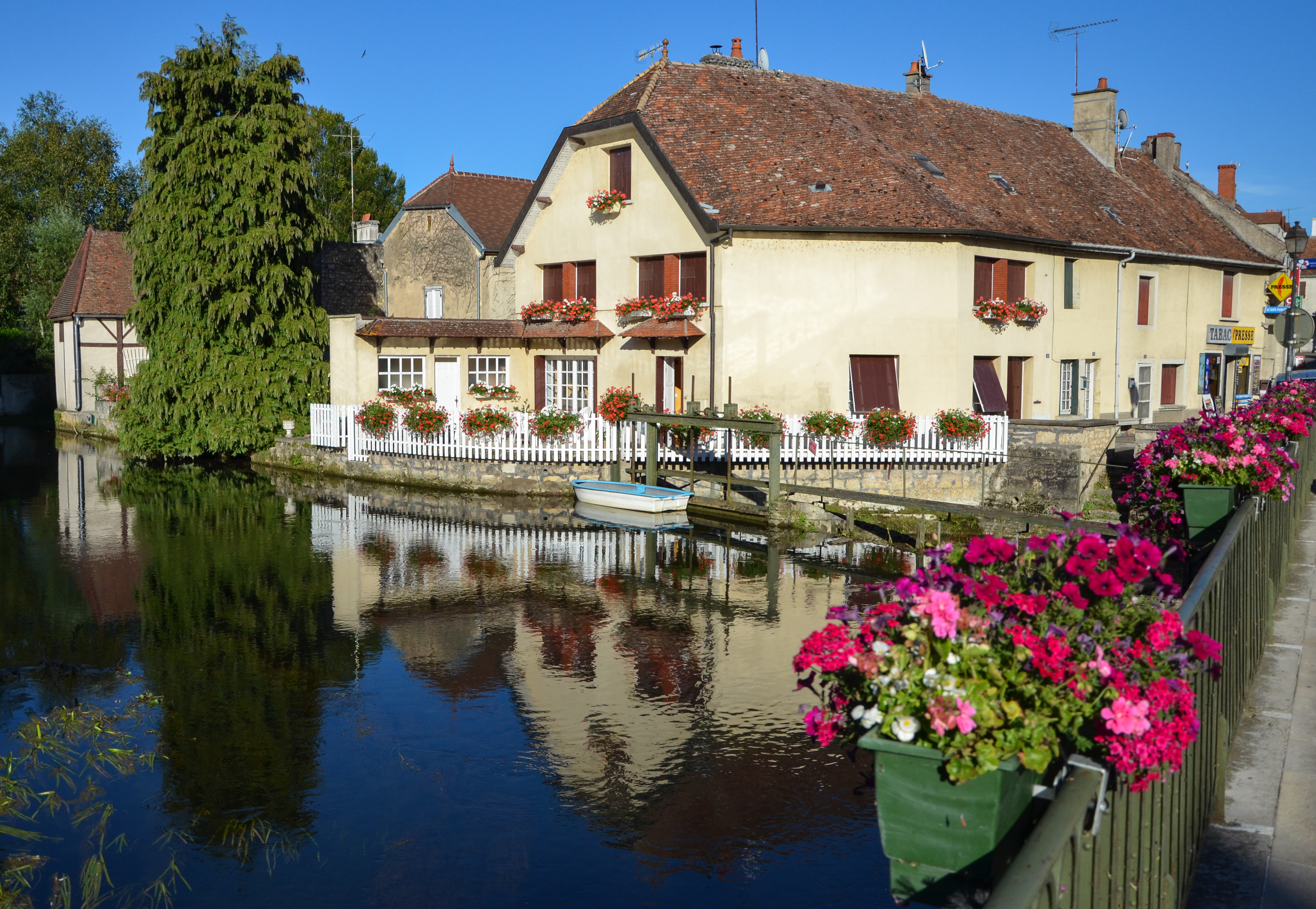 The river Bèze in Mirebeau sur Bèze, Côte-d'Or , France